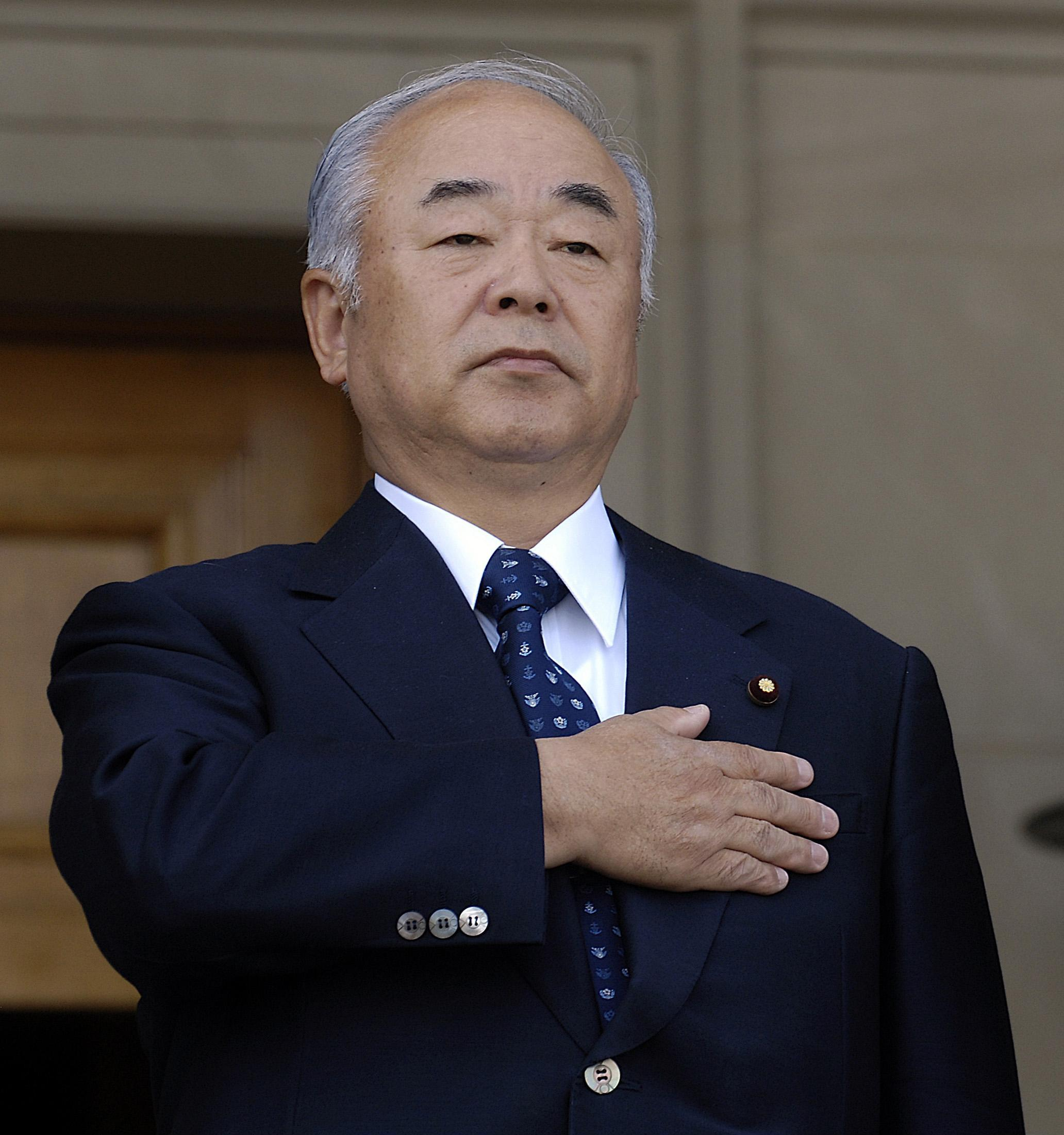 Secretary of Defense Robert M. Gates, right, and Japanese Minister of Defense Fumio Kyuma listen as the band plays the "Star-Spangled Banner" during an arrival ceremony for Kyuma at the Pentagon on April 30, 2007. Gates, Kyuma and their senior advisors will meet to discuss security matters of interest to both nations. DoD photo by Cherie A. Thurlby. (Released) Location: PENTAGON, WASHINGTON, D.C. USA 5 Camera Operator: CHERIE A. THURLBY